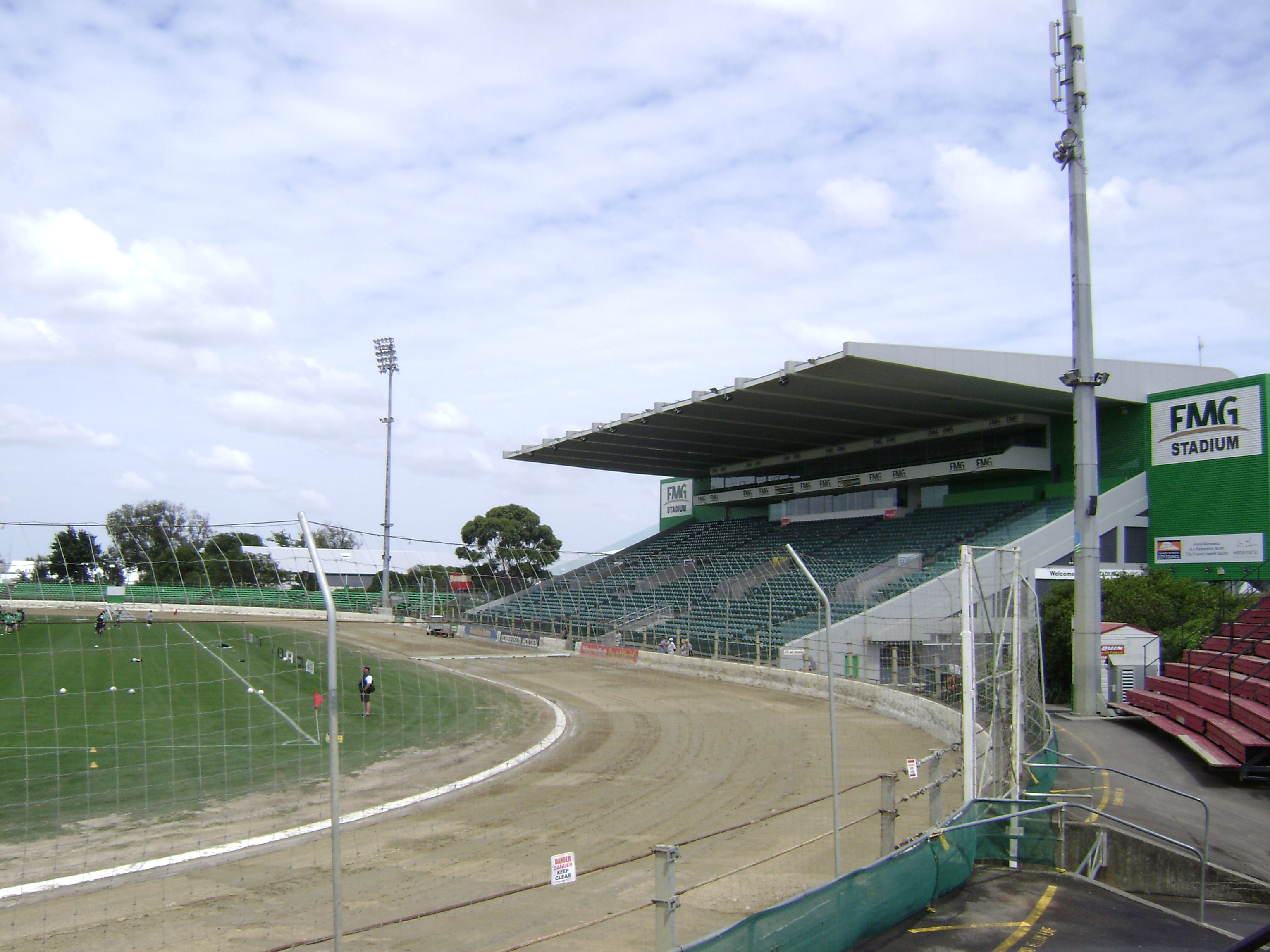 Arena Manawatu, former Showground Oval and FMG Stadium, in Palmerston North, New Zealand